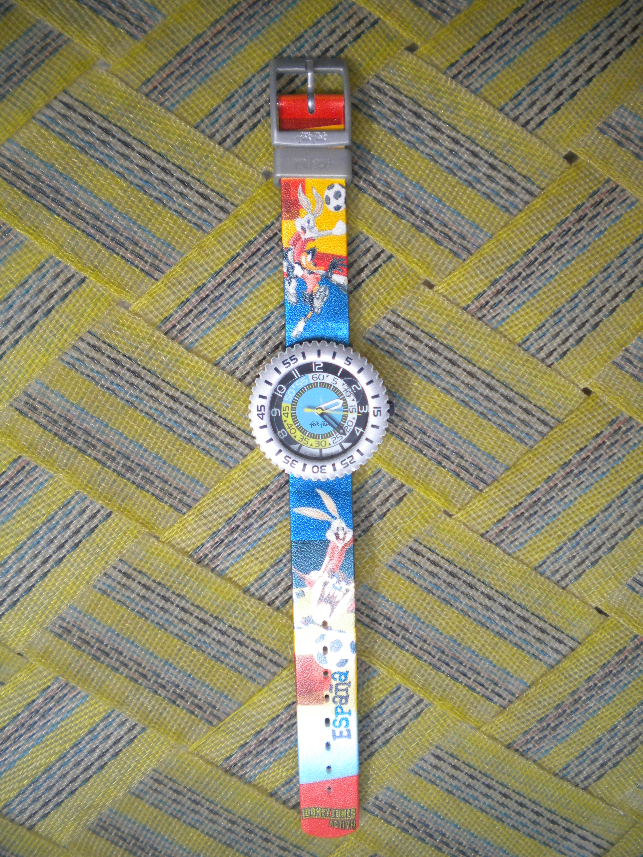 Swatch Flik Flak Fifa World Cup Spain Edition. The watch shows the time 2:22:16. The lower wrist band says "Looney Toons Active!" and "España", and the wrist bands show Bugs Bunny, Daffy Duck, and the Tasmanian Devil playing association football (soccer).